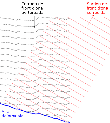 Diagram demonstrating the use of a deformable mirror to correct for wavefront errors.